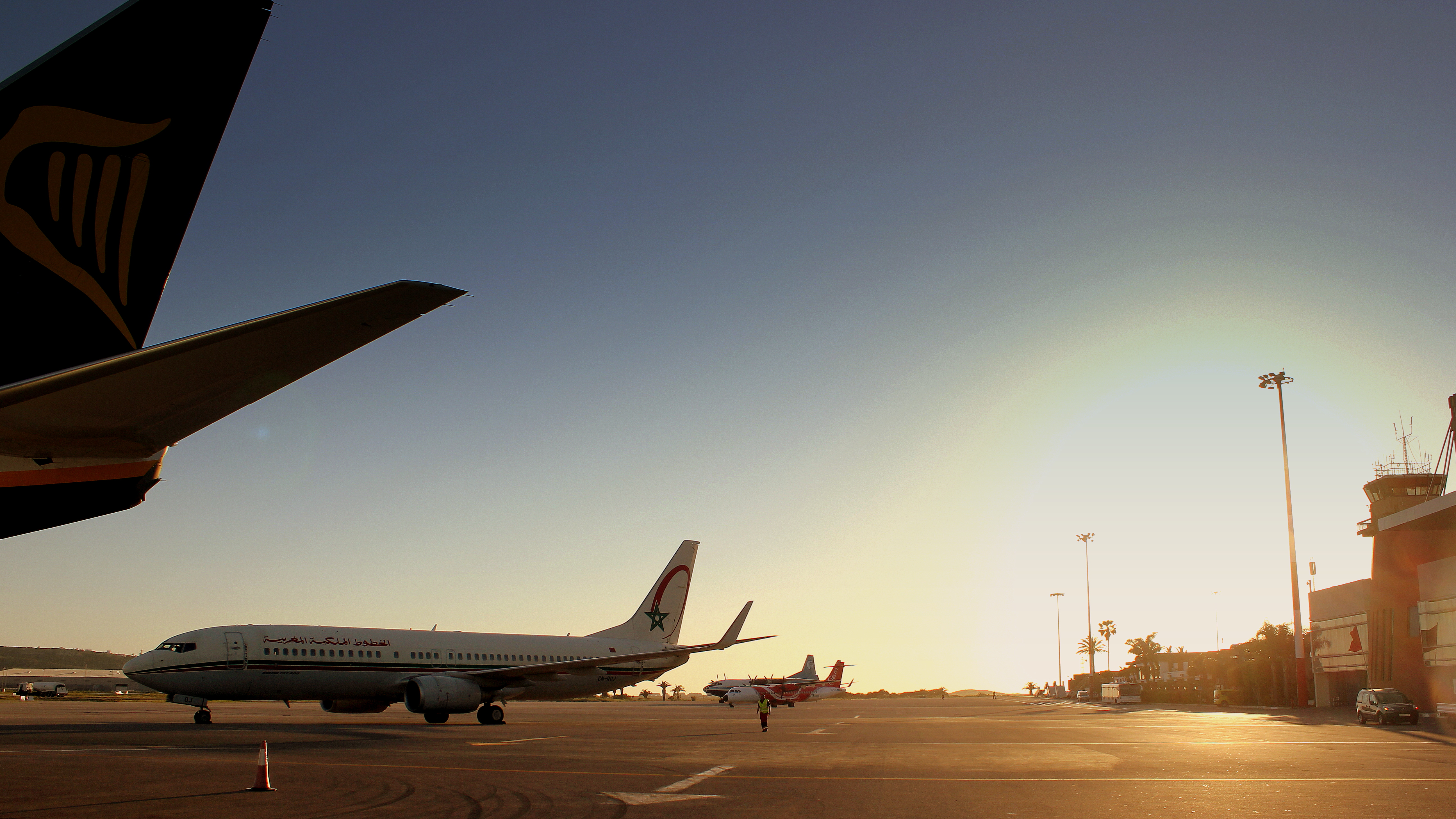 NICE ANTONOV AN12 AT THE END OF THE TERMINAL